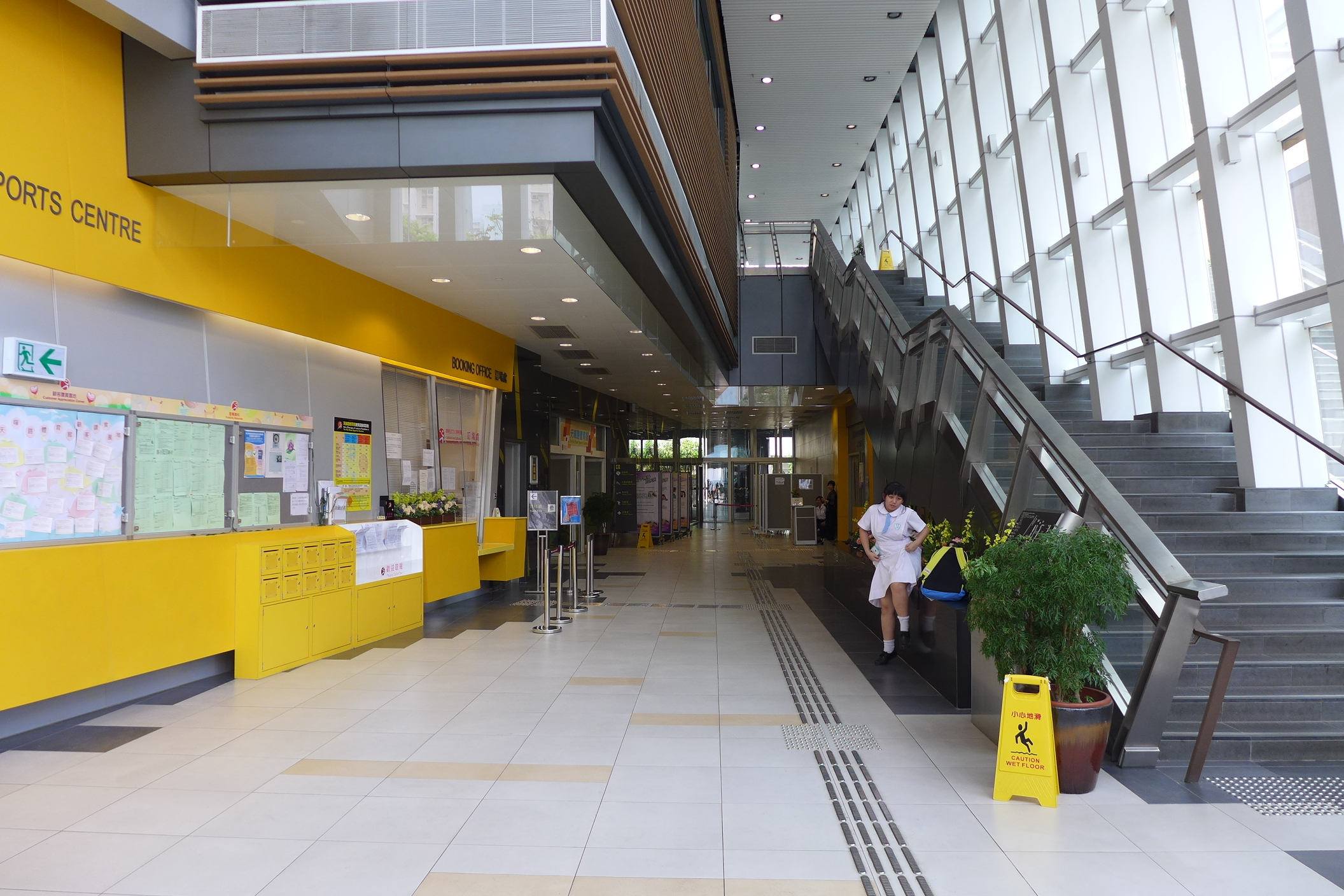 Tin Fai Road Sports Centre Lobby